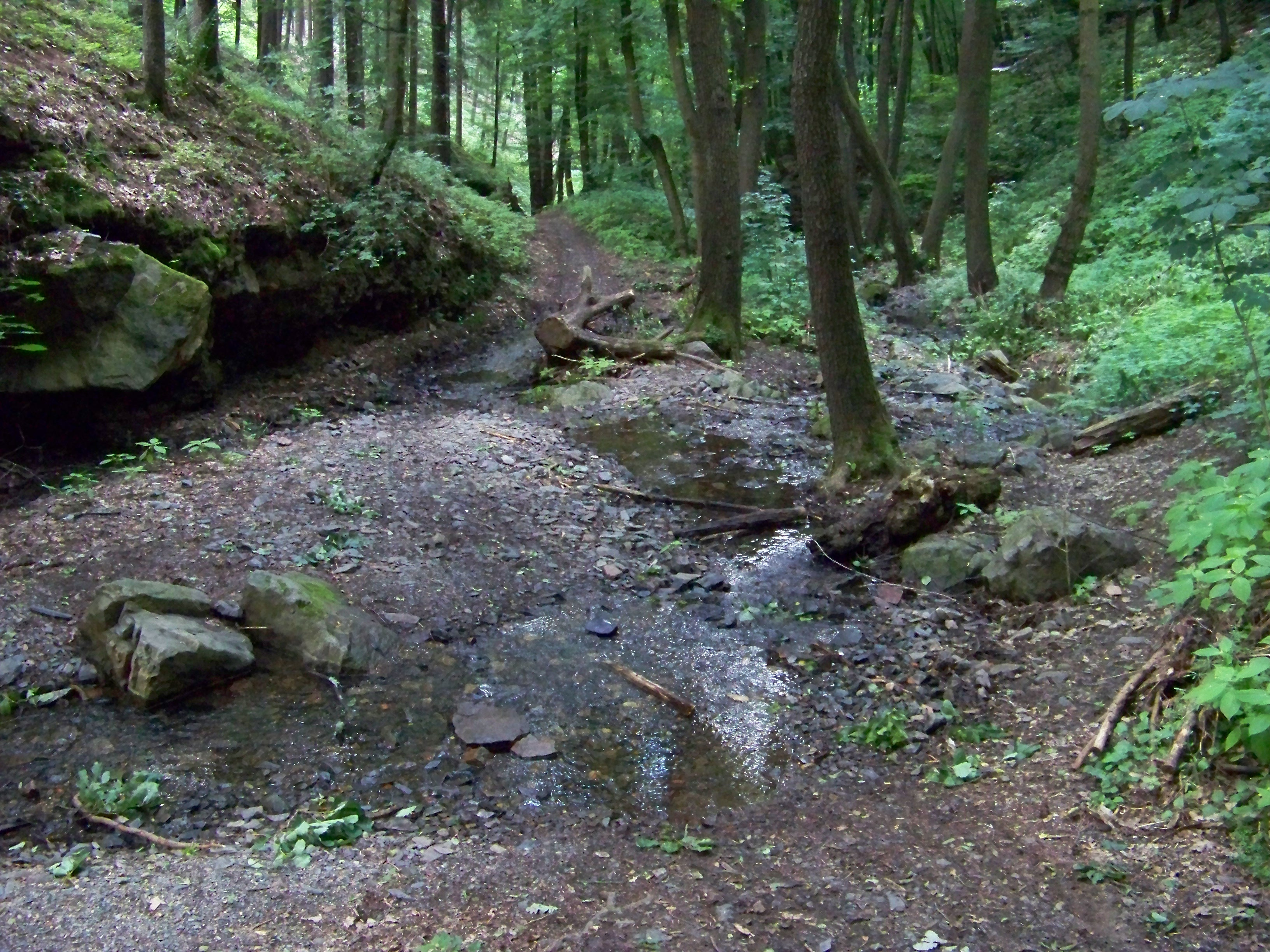 Dolní Břežany-Lhota, Prague-West District, Central Bohemian Region, the Czech Republic. Károv Valley, Károv Creek. - OpenStreetMap(Info)